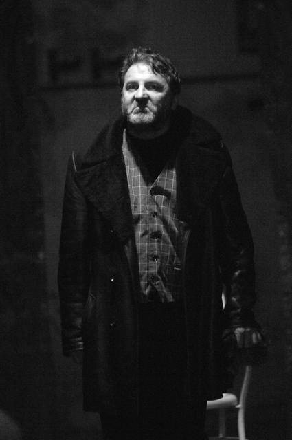 Stefano Saccotelli in "The Cherry Orchard" by Anton Chekhov.